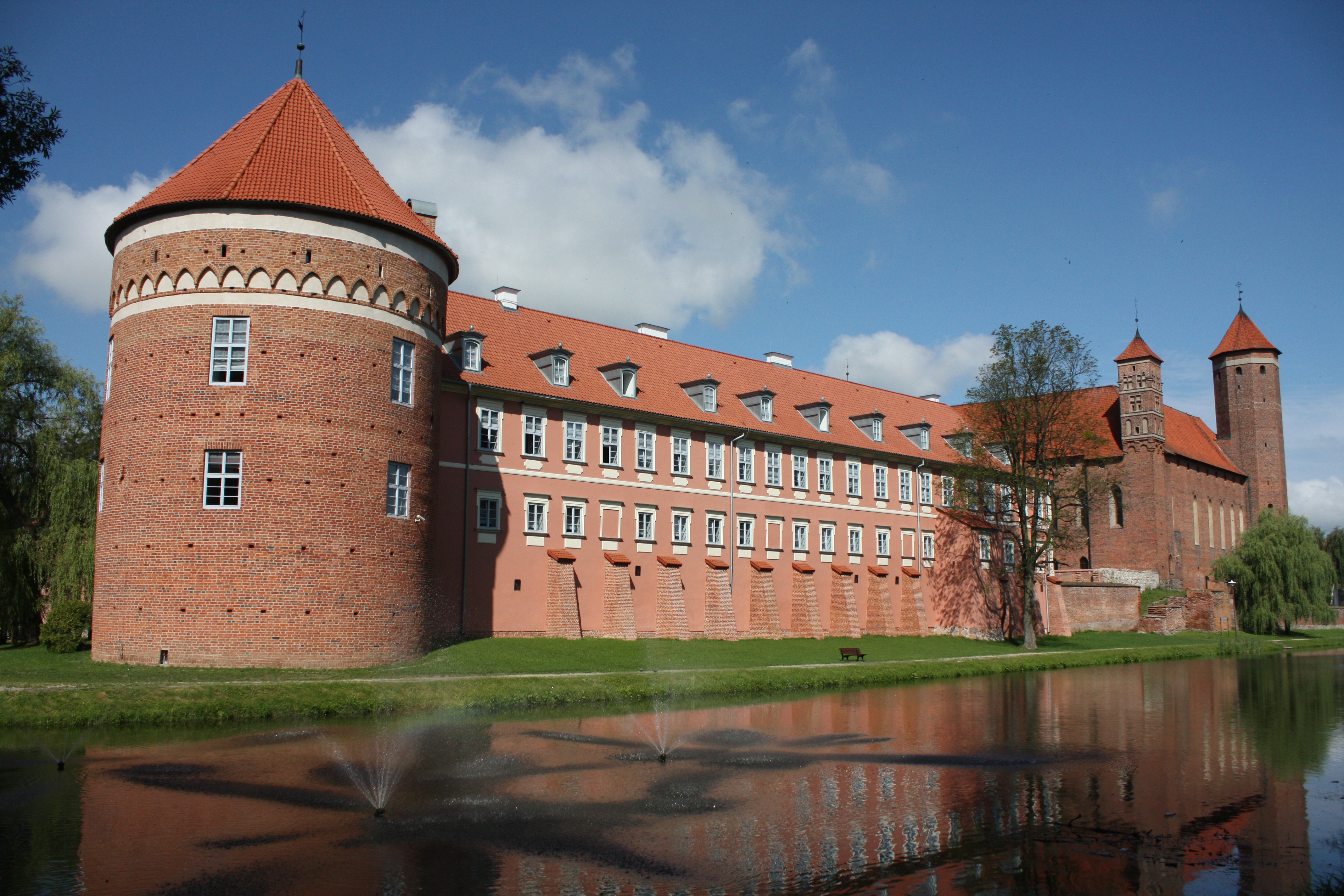 This photo of Warmian-Masurian Voivodeship was taken during Wikiexpedition 2012 set up by Wikimedia Polska Association. You can see all photographs in category Wikiekspedycja 2012. The making of this document was supported by Wikimedia Polska.